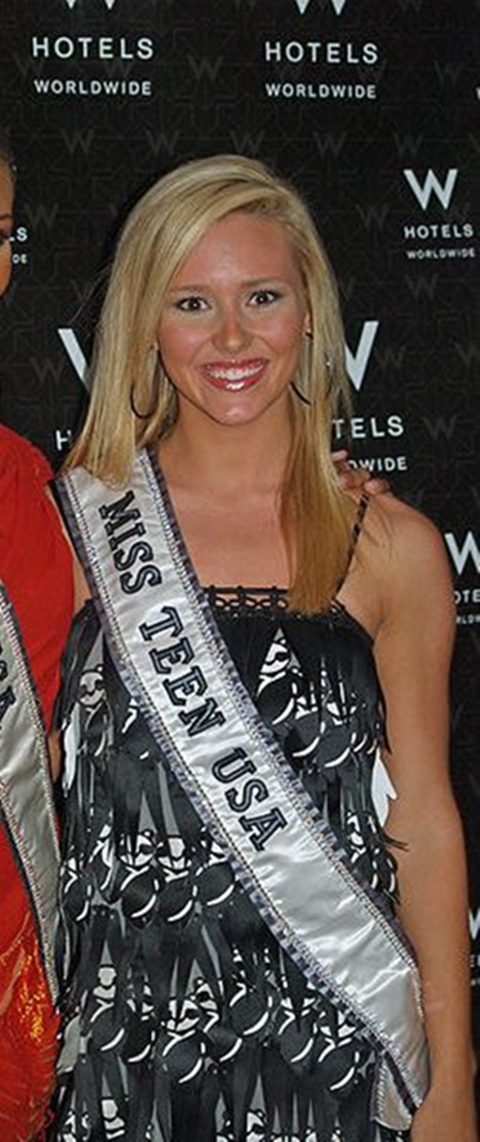 Crystle Stewart and Stevi Perry outside the Vivenne Tam show at the Spring 2009 collection Mercedes-Benz Fashion Week (aka New York Fashion Week)